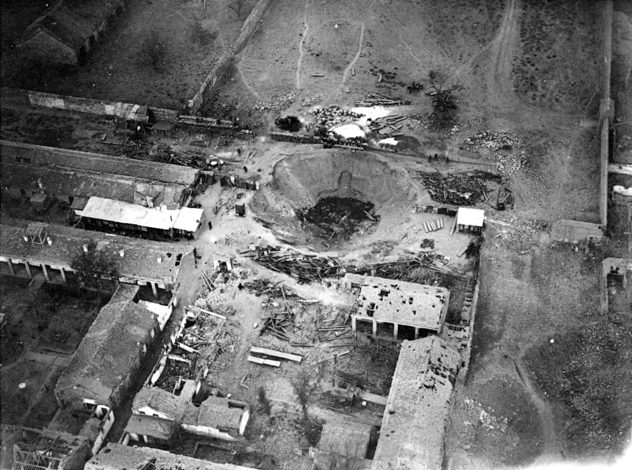 Image from La Chine à terre et en ballon.